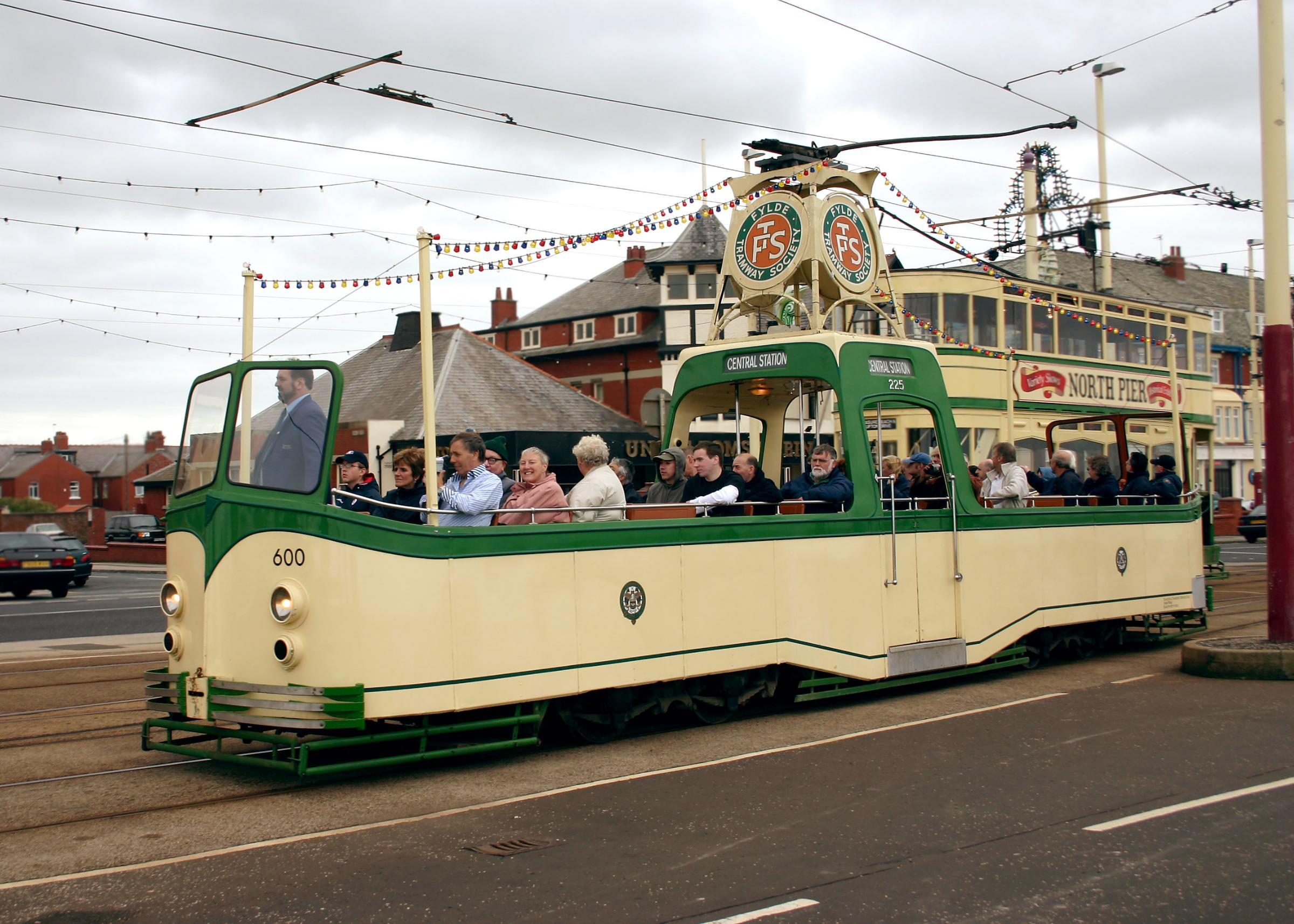 Author: Mark S Jobling